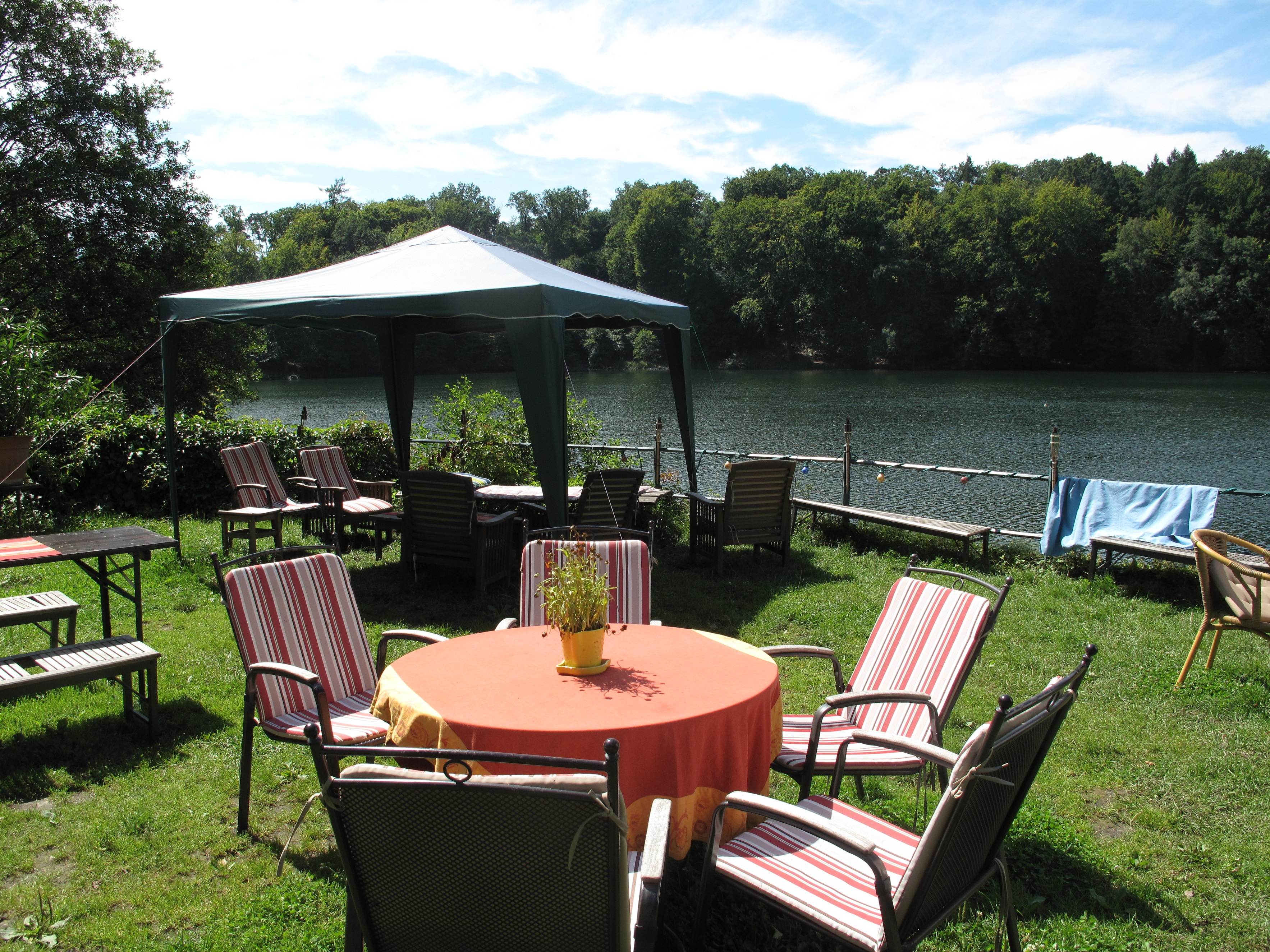 „Haus Tornow am See“ (former manor house) in Tornow. Tornow is a hamlet of Pritzhagen, a village of the municipality Oberbarnim in the District Märkisch-Oderland, Brandenburg, Germany. The former demesme with a manor house from 1912 is today separated into a special education school („Schule am Tornowsee“) and a hotel with integrated work/job- and rehabilitation-training for people with mental disorders („Haus Tornow am See“). Tornow is situated at the northern bank of the Große Tornowsee (lake).